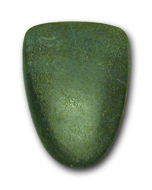 Neolithic axe